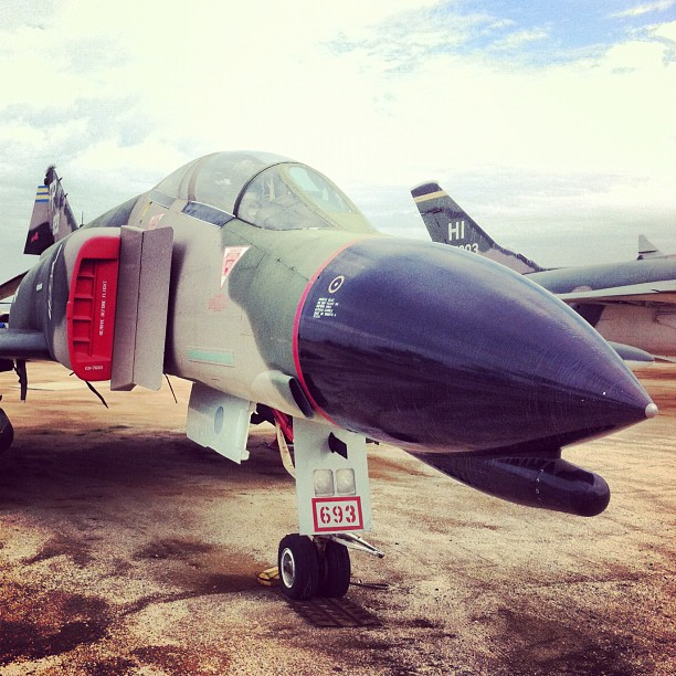 The Phantom menace. March CA